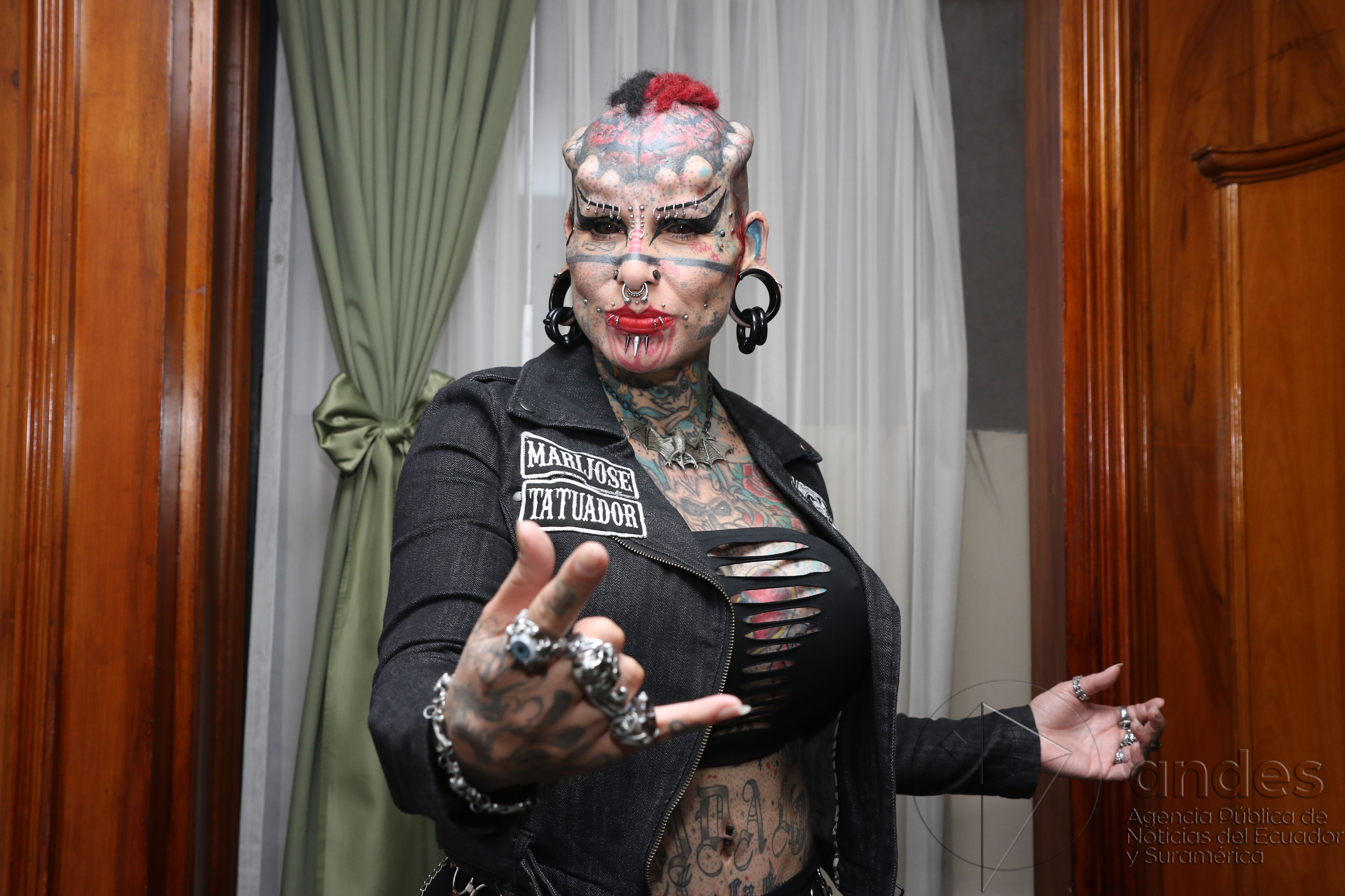 María José Cristerna Méndez, Mexican lawyer and tattoo artist at the First National Middle of the World (Ecuador) Tattoo Convention in 2016.